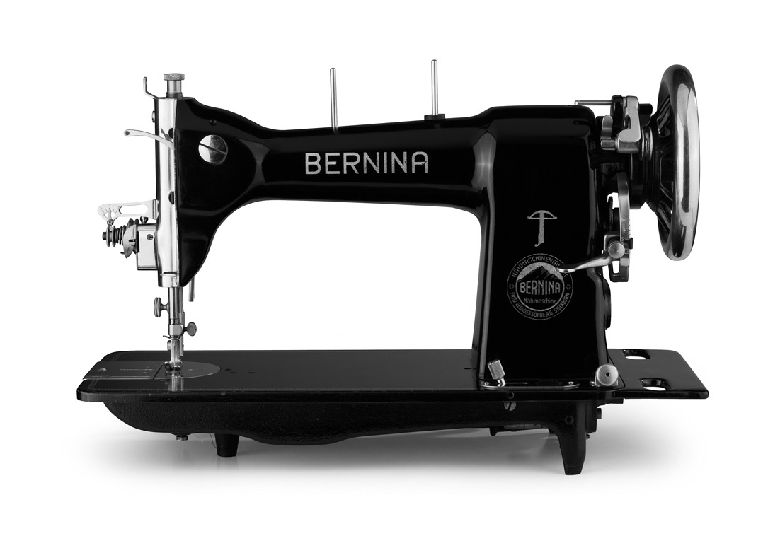 modell 105